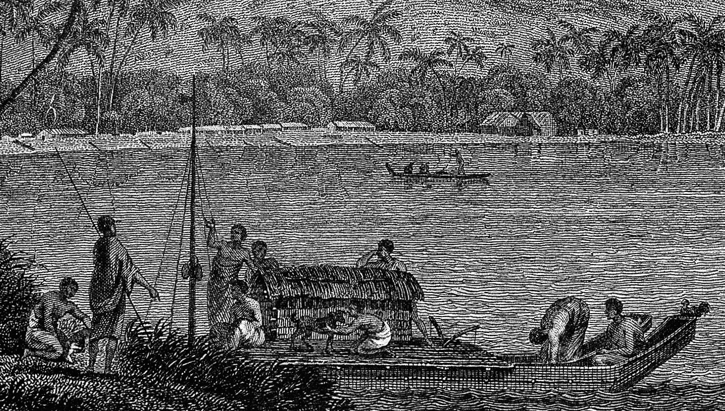 Lower left corner crop of a scene from 'A view of Huaheine' by John Webber. Depicting a group of Tahitians in a canoe and a native dog. The man is kneeling on the deck of a double canoe near the boathouse and perhaps holding still the dog in front of him so that the artist can sketch it.